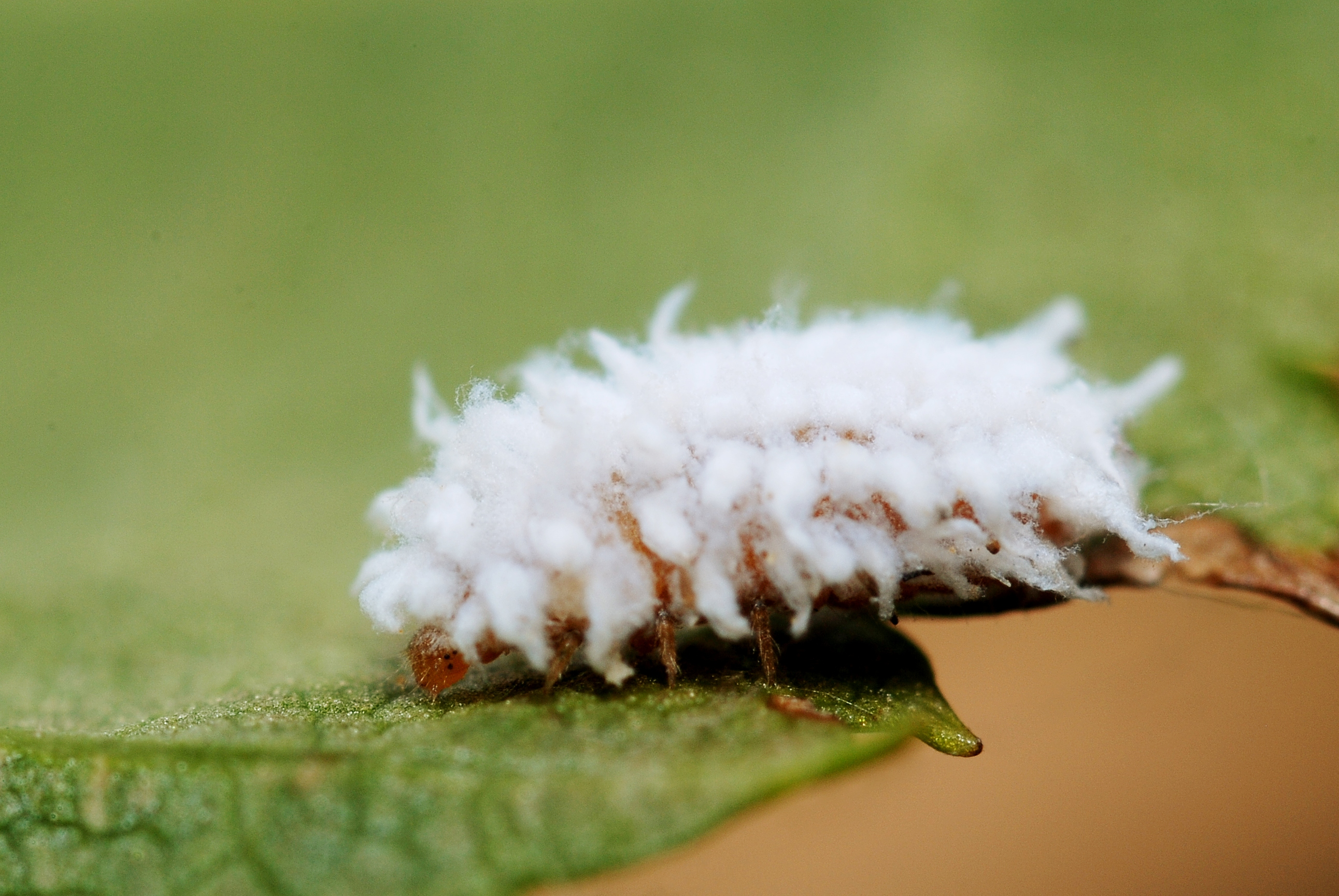 Larva of a ladybird from the Scymninae subfamilly covered by its waxy production.